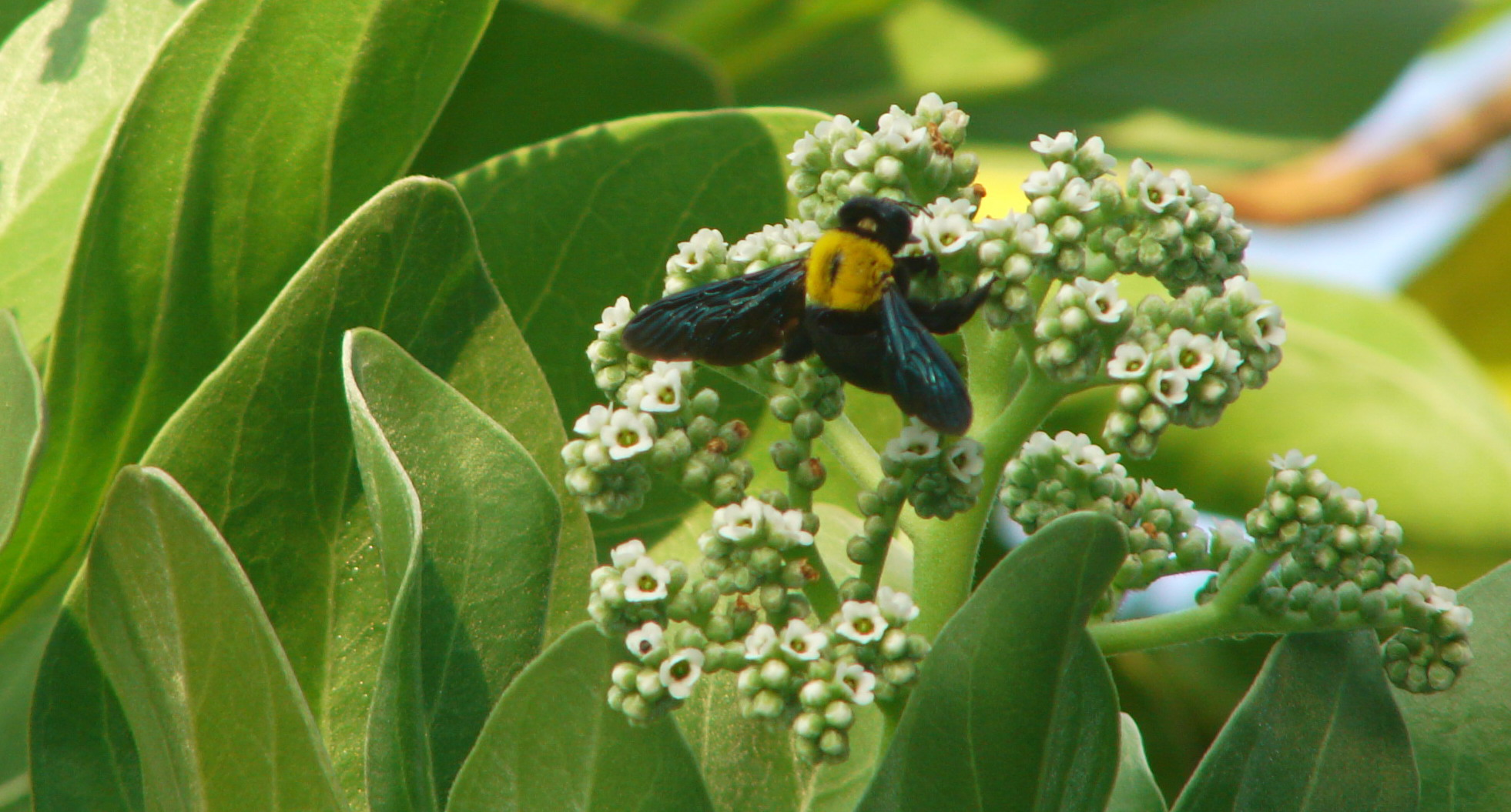 Photographs from Maldives : Xylocopa ?pubescens on Tournefortia argentea